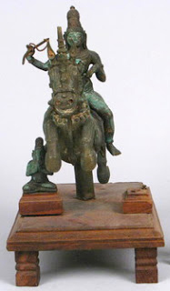 Lord Aiyanar on Horse. Lord Pavadairayan sits on the left of Lord Aiyanar.